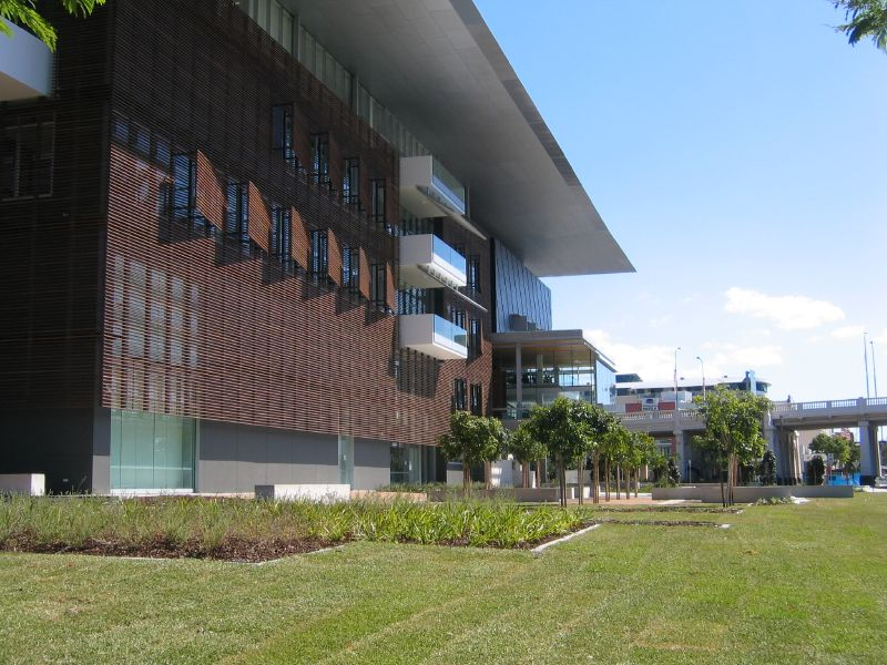 Brisbane Museum of Modern Arts opened in Dec, 06